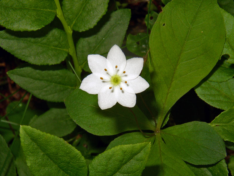 Trientalis europaea growing near Glenlivet, Scotland.